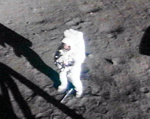 A single cut frame of a 16mm movie. It shows Neil Armstrong standing on the lunar surface with his visor raised. He has just finished collecting some samples.